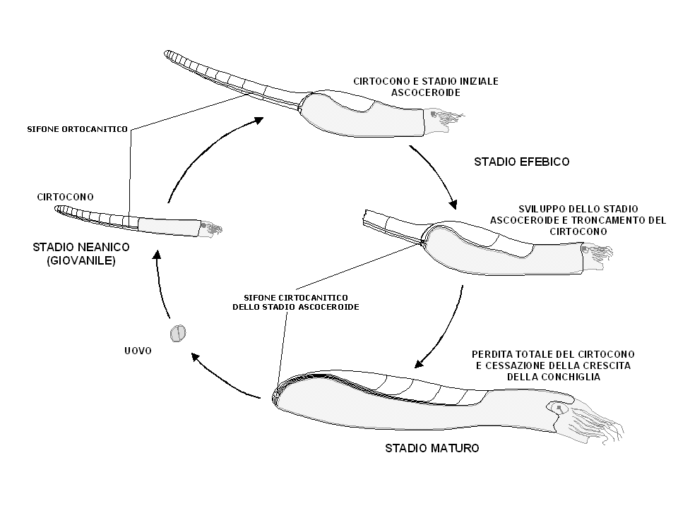 Ideal scheme of Ascocerid nautiloids ontogeny. Text in italian.